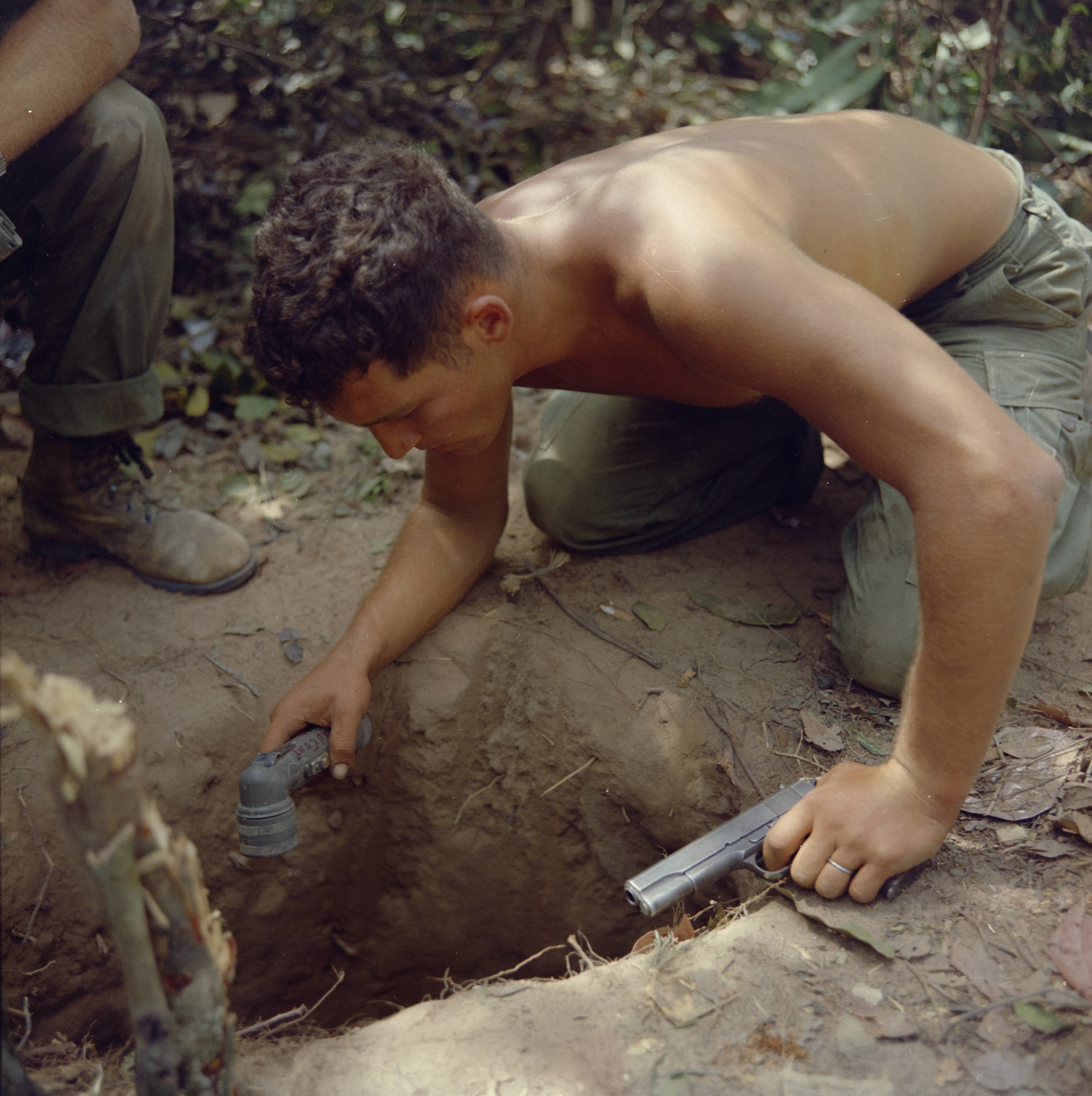 SGT Ronald A. Payne (Atlanta, Ga) Squad Leader, Company A, 1st Battalion, 5th Mechanized Infantry, 25th Infantry Division, checks a tunnel entrance before entering. This was one of several tunnels found in the Cu Chi, Republic of Vietnam area. This tunnel was found while the company was conducting a search and destroy mission as a part of Operation “Cedar Falls” in the Hobo Woods area.